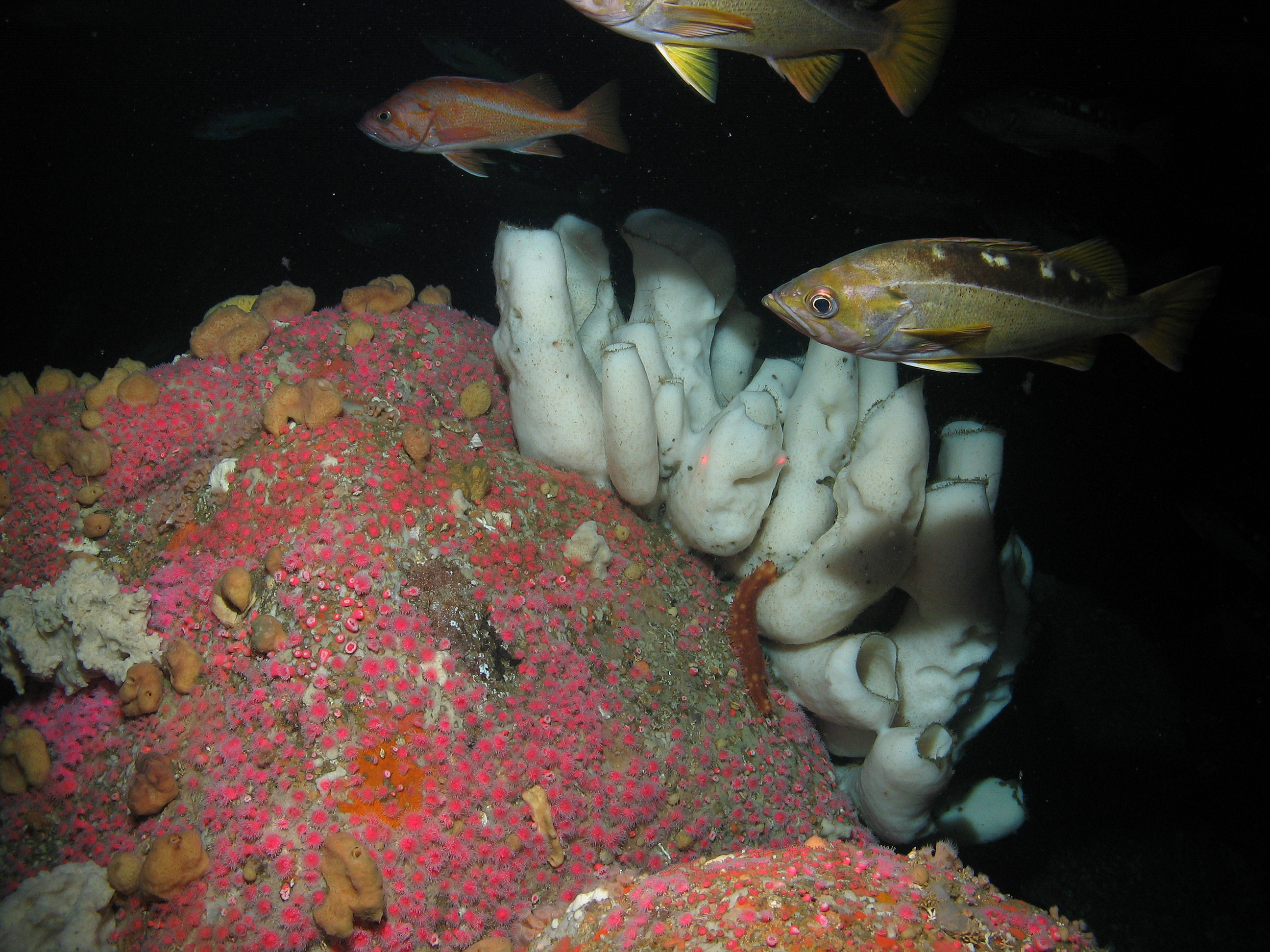 Yellowtail rockfish over boot sponges on Rittenburg Bank. In October 2012, NOAA and partners discovered deep sea coral and sponge banks in the Farallones National Marine Sanctuary. (Original source and more information: National Ocean Service Website)